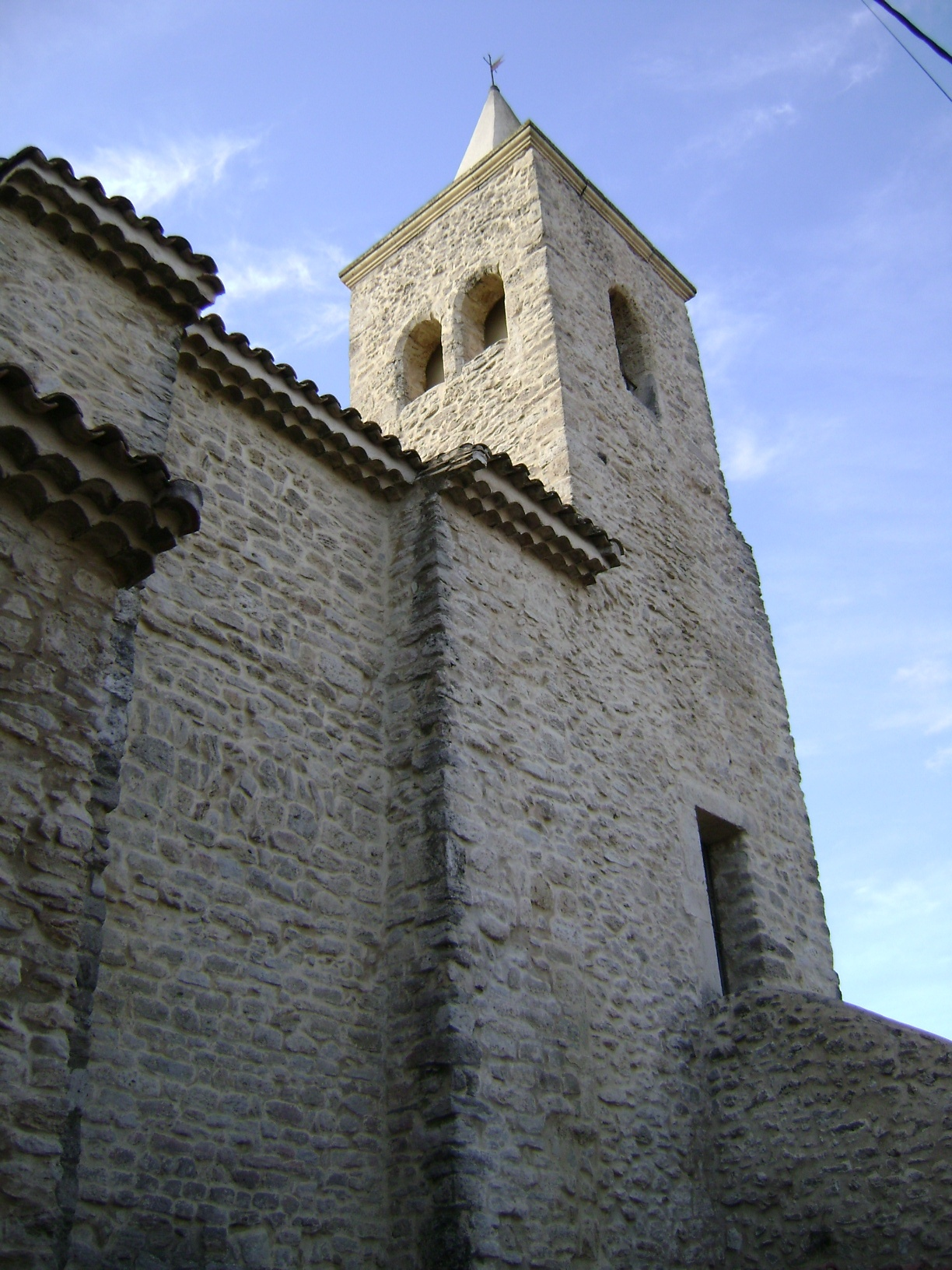 St Genest church, Marcorignan, Aude ,France